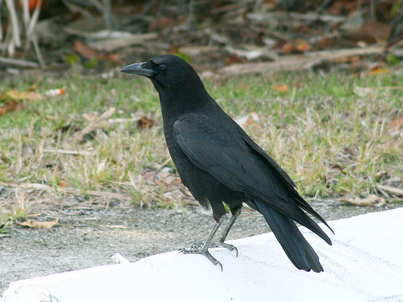 Fish Crow, Mahogany Hammock Trail, Everglades National Park, Florida, USA